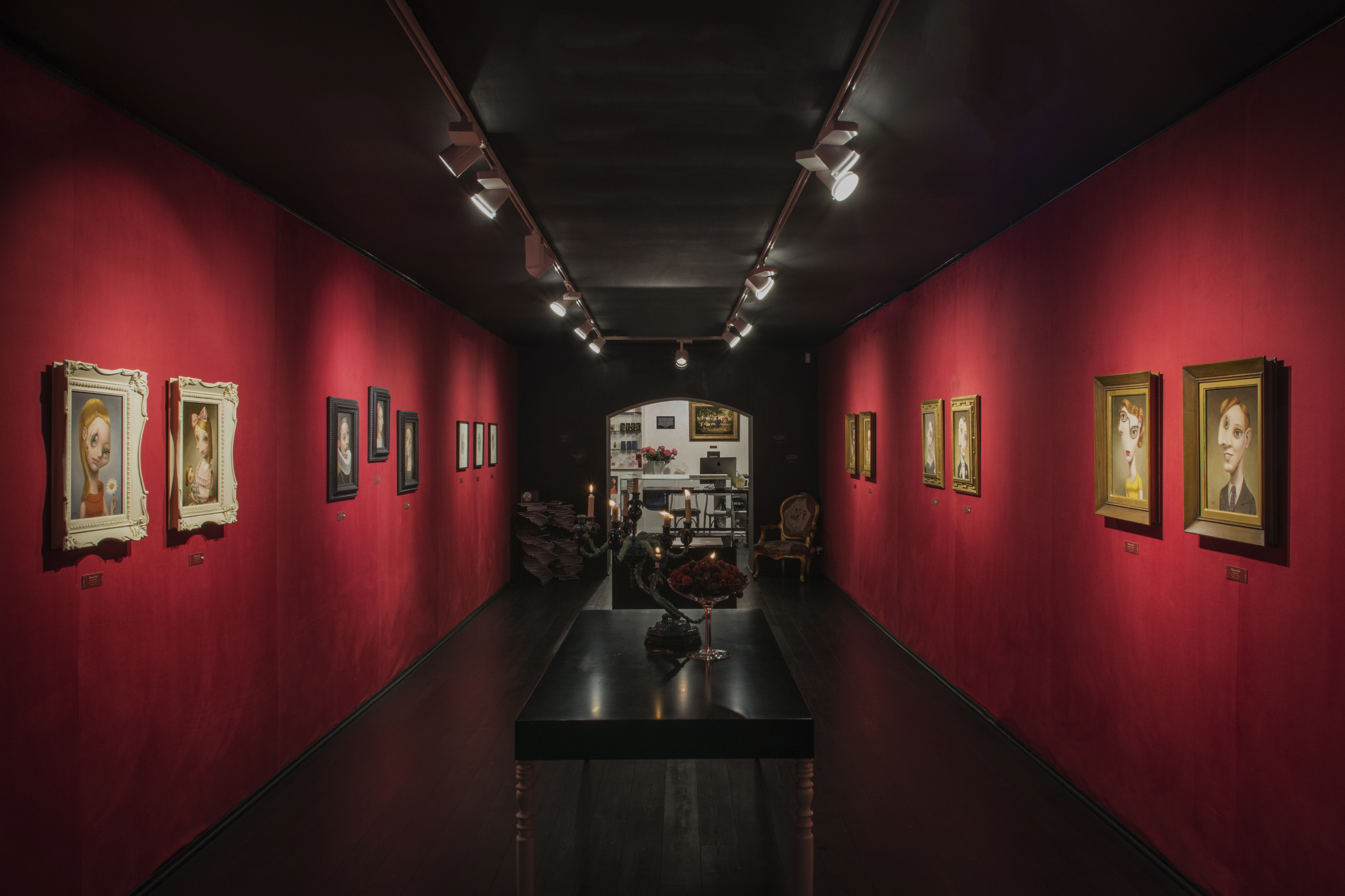 The exhibition room in Rome in occasion of Marion Peck's solo show